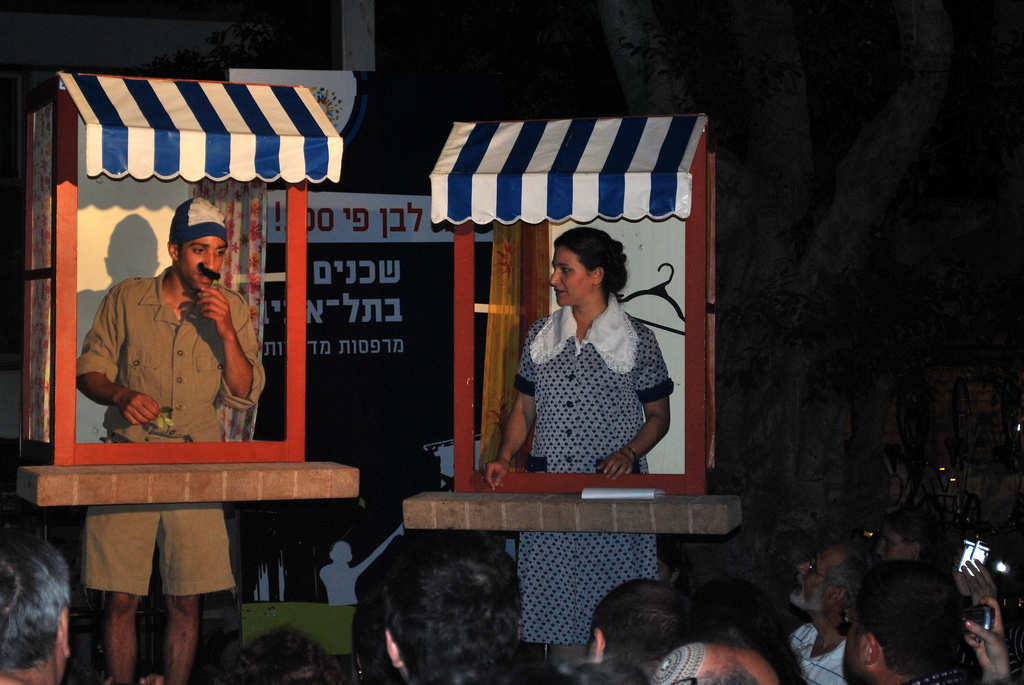 Actors acting up a Yiddish play at Rothschild Blvd. Taken at the "White Night" annual tradition of Tel Aviv, this year (2009) to celebrate 100 years to the city.